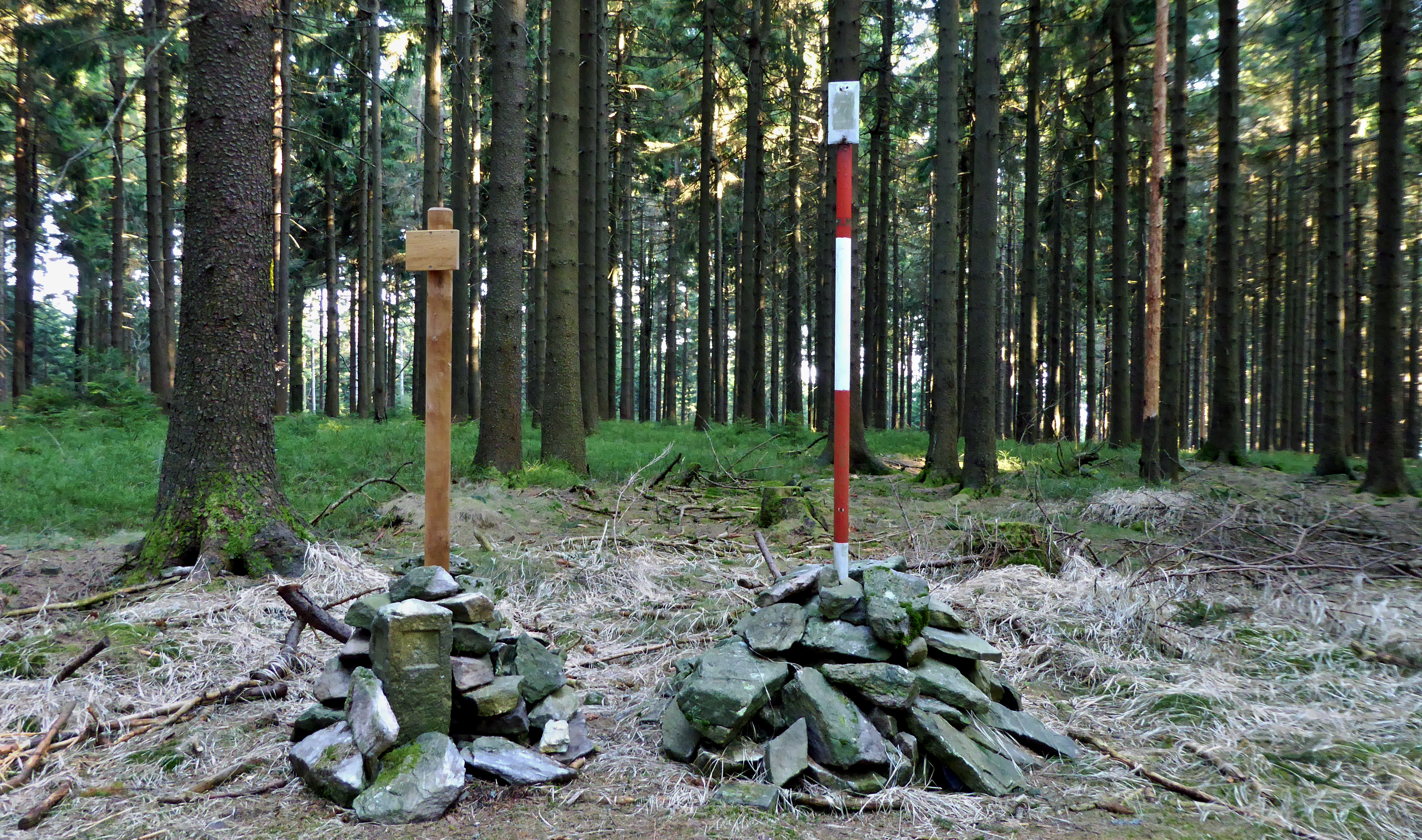 Shrubbery (czech: Křovina) is the geographical name (oronymum) of the hill with an altitude of 830 m in the georelief of "Devítiskalská" Highlands and the second highest peak in the landscape area of "Žďárské" hills. Within administration, it is located in the cadastral area of Samotín, part of the small town Sněžné in the district Žďár nad Sázavou, belonging to the Vysočina Region in the territory of the Czech Republic. Photo-location: Czechia, "Vysočina" Region, small town "Sněžné", cadastral area "Samotín", "Devítiskalská" Highlands, the Shrubbery, view on the forest locality with trigonometric point (180°).